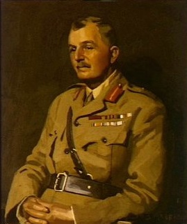 Portrait of Major General (later Lieutenant General) James Gordon Legge, of the 1st Australian Imperial Force, Companion of the Order of the Bath (CB), Companion of the Order of St Michael and St George (CMG). Major General Legge organised the Australian Naval and Military Expeditionary Force (AN&MEF), Commanding 1st Division Australian Infantry Force, and later 2nd Division Australian Infantry Force, on the Western Front.